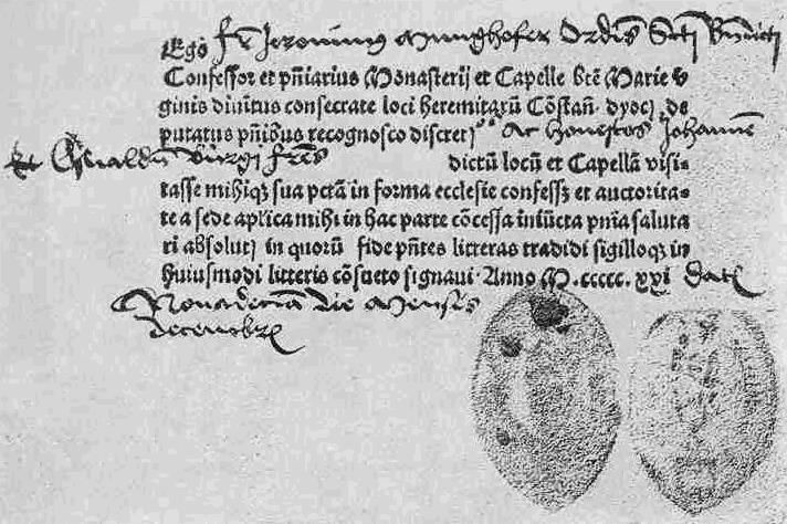 A Roman Catholic certificate of having gone to confession from the year 1521